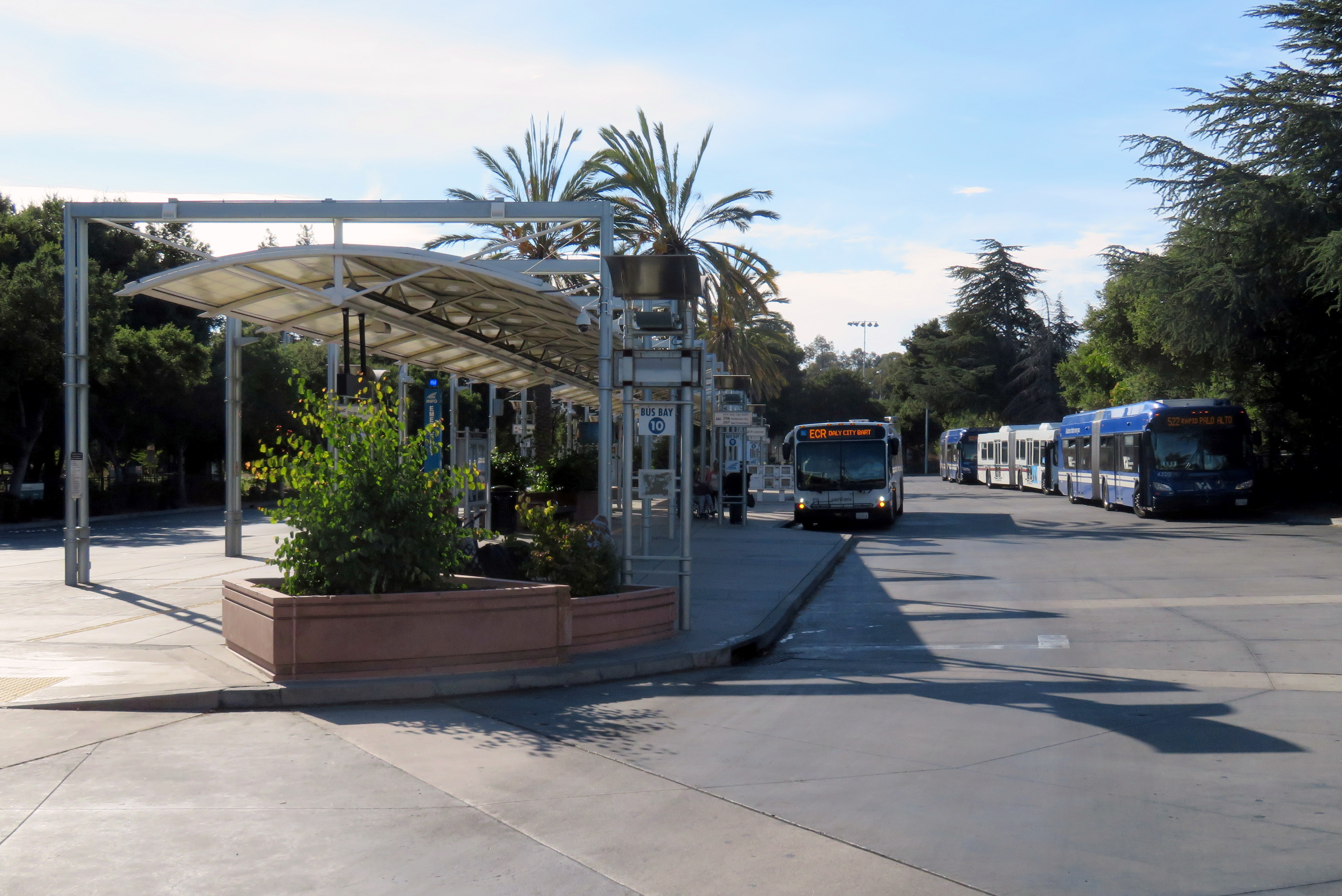 Bus plaza with SamTrans and VTA buses at Palo Alto station in July 2018